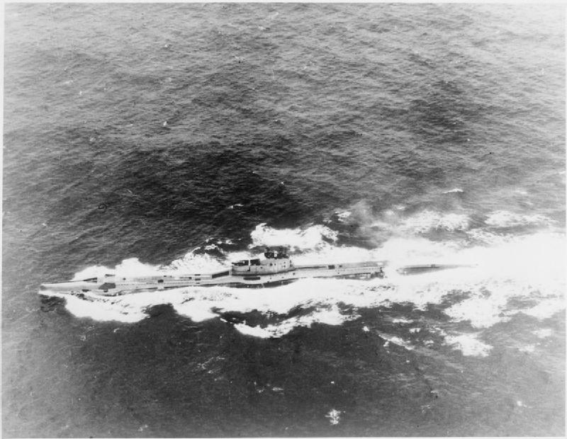 British T class submarine HMS Triumph(N18) underway after reconstruction.